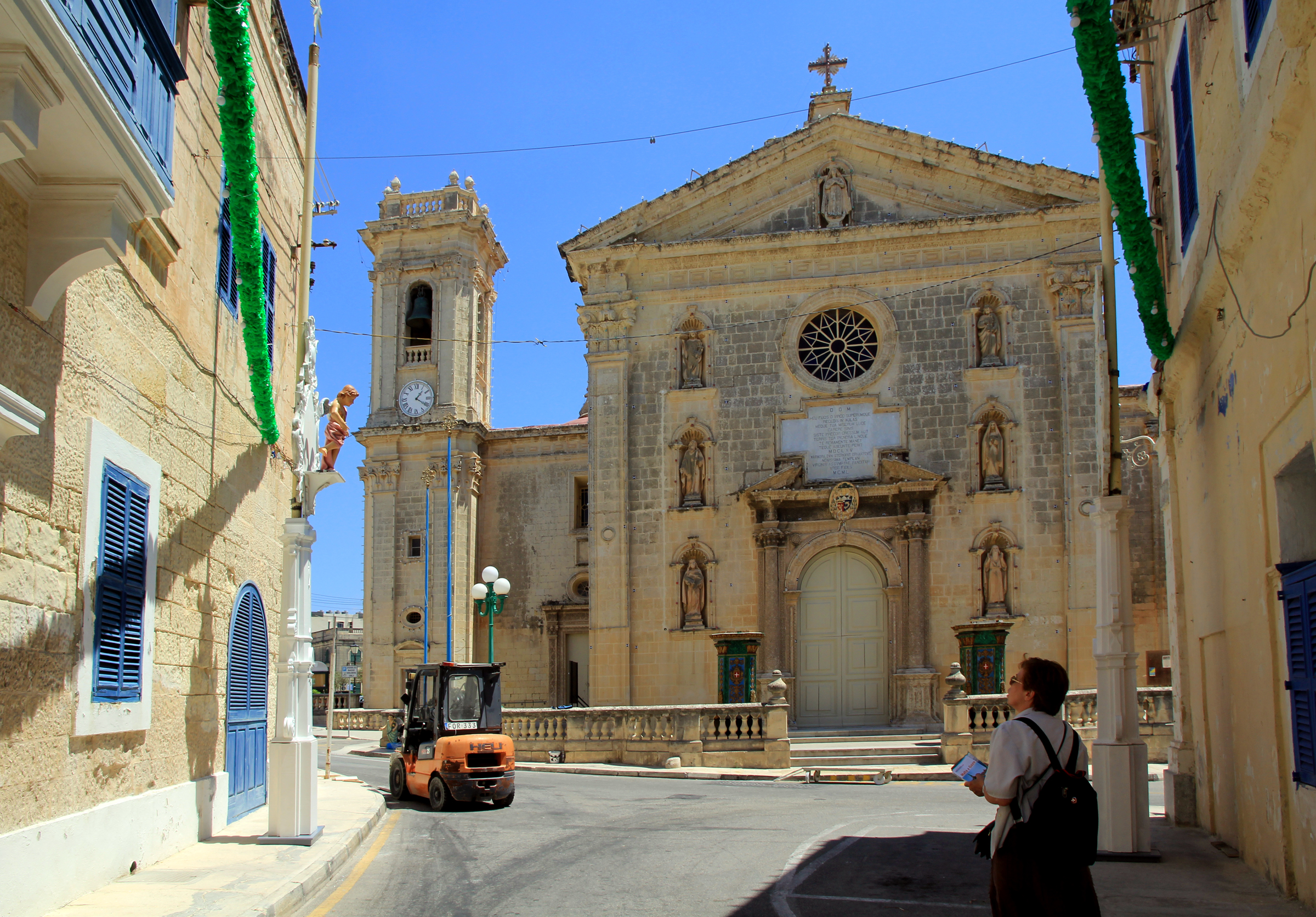 Parish Church of town Attard, Malta